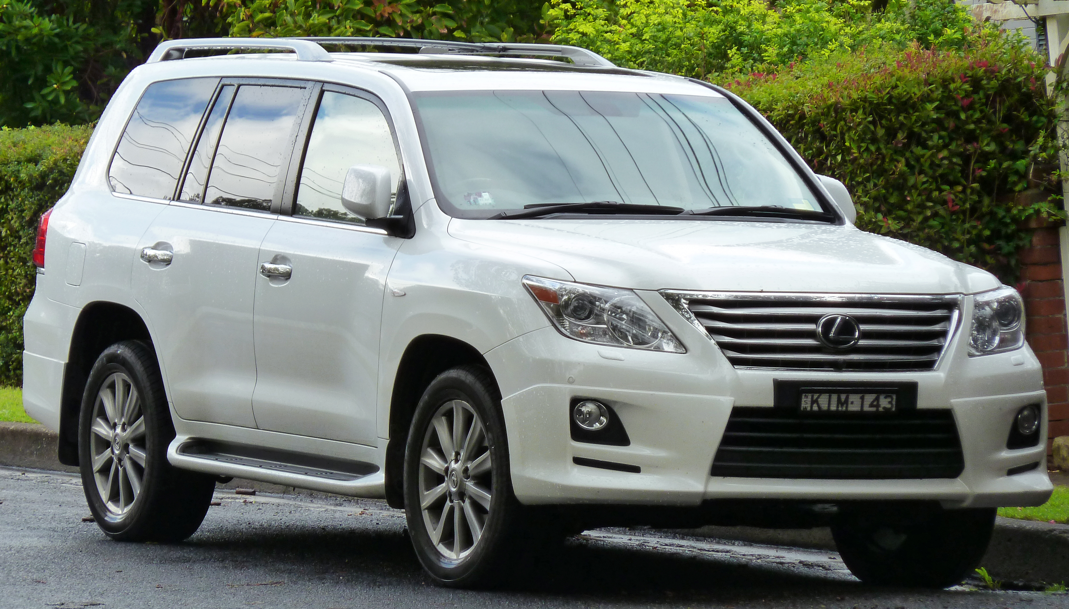 2008–2011 Lexus LX 570 (URJ201R) Sports Luxury wagon. Photographed in Lindfield, New South Wales, Australia.